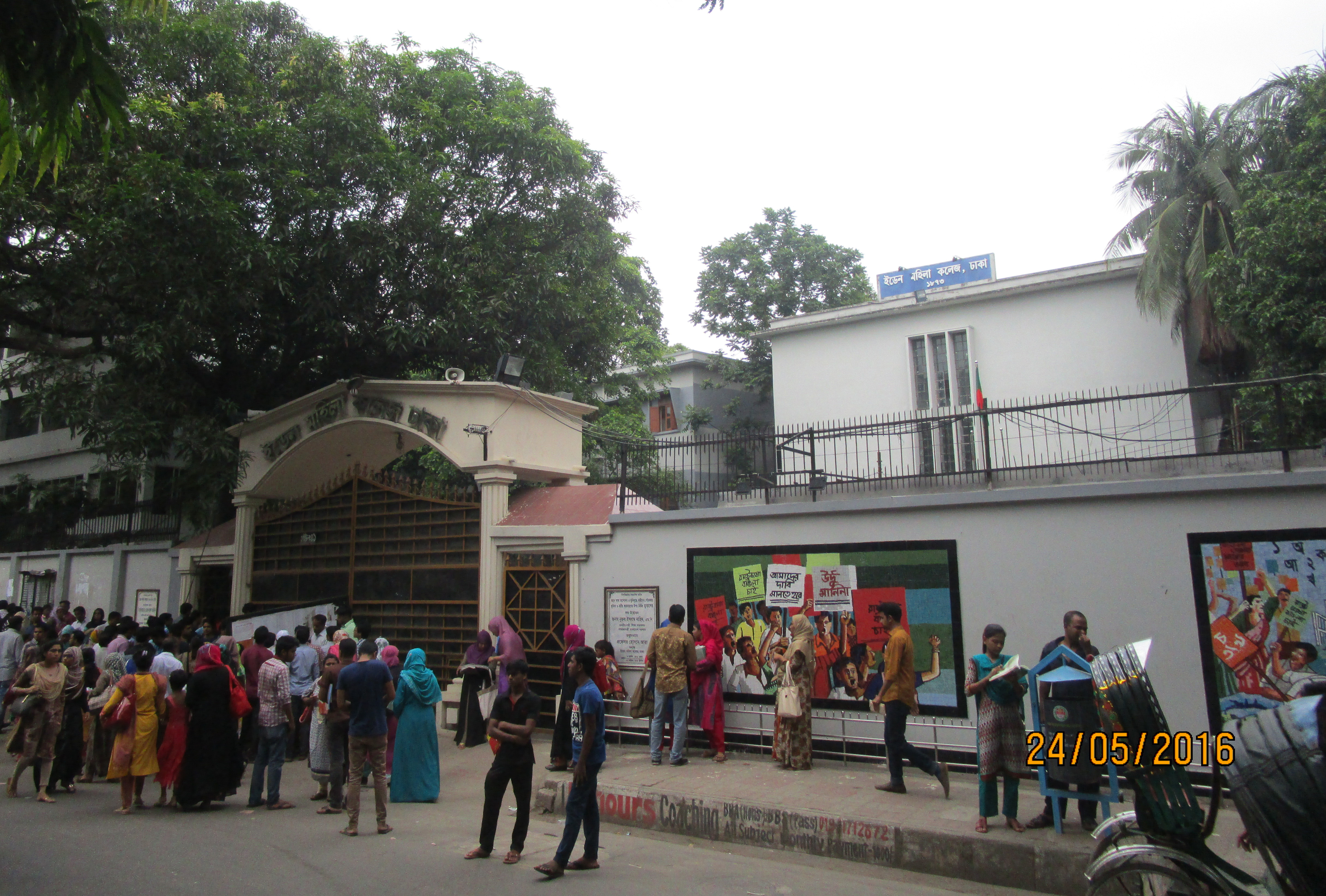 The main gate of Eden Mohila College, Dhaka